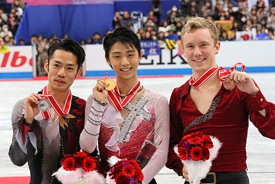 The Mens podium at the 2012 NHK Trophy. From left: Daisuke Takahashi(2nd), Yuzuru Hanyu (1st), Ross Miner